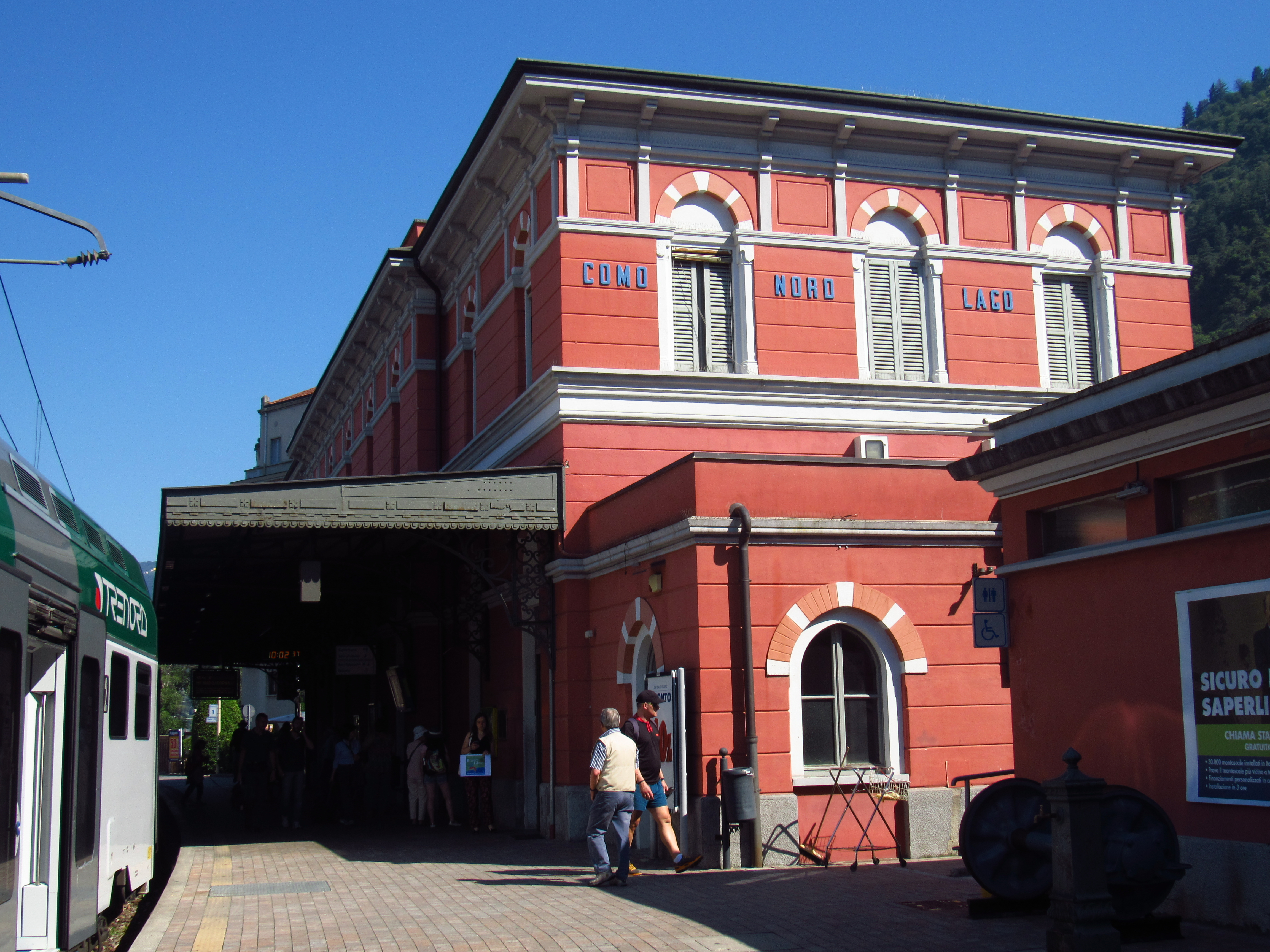 Como Lago railway station in Como, Italy.